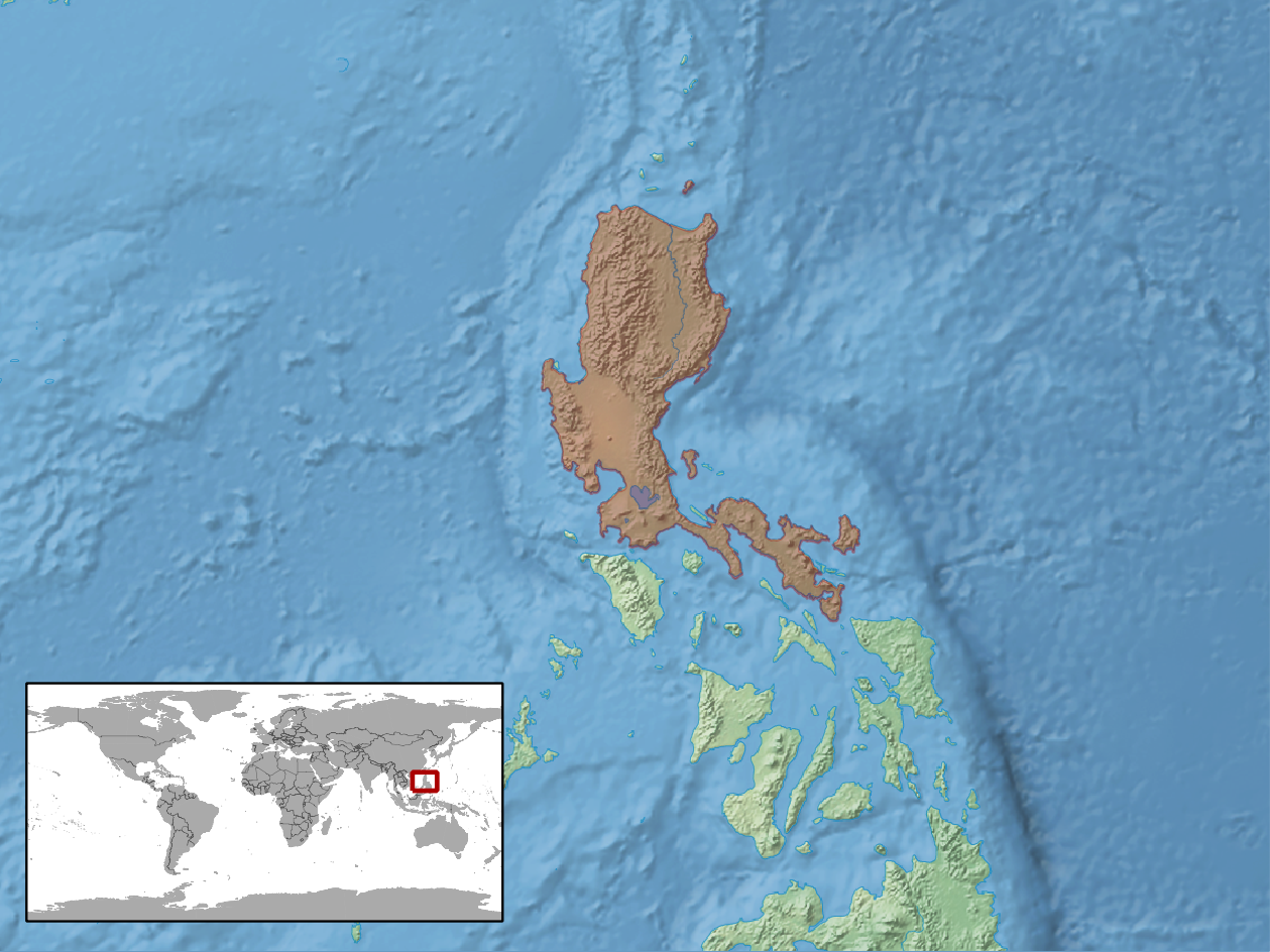 geographic distribution of Luperosaurus cumingii (Native: Philippines)